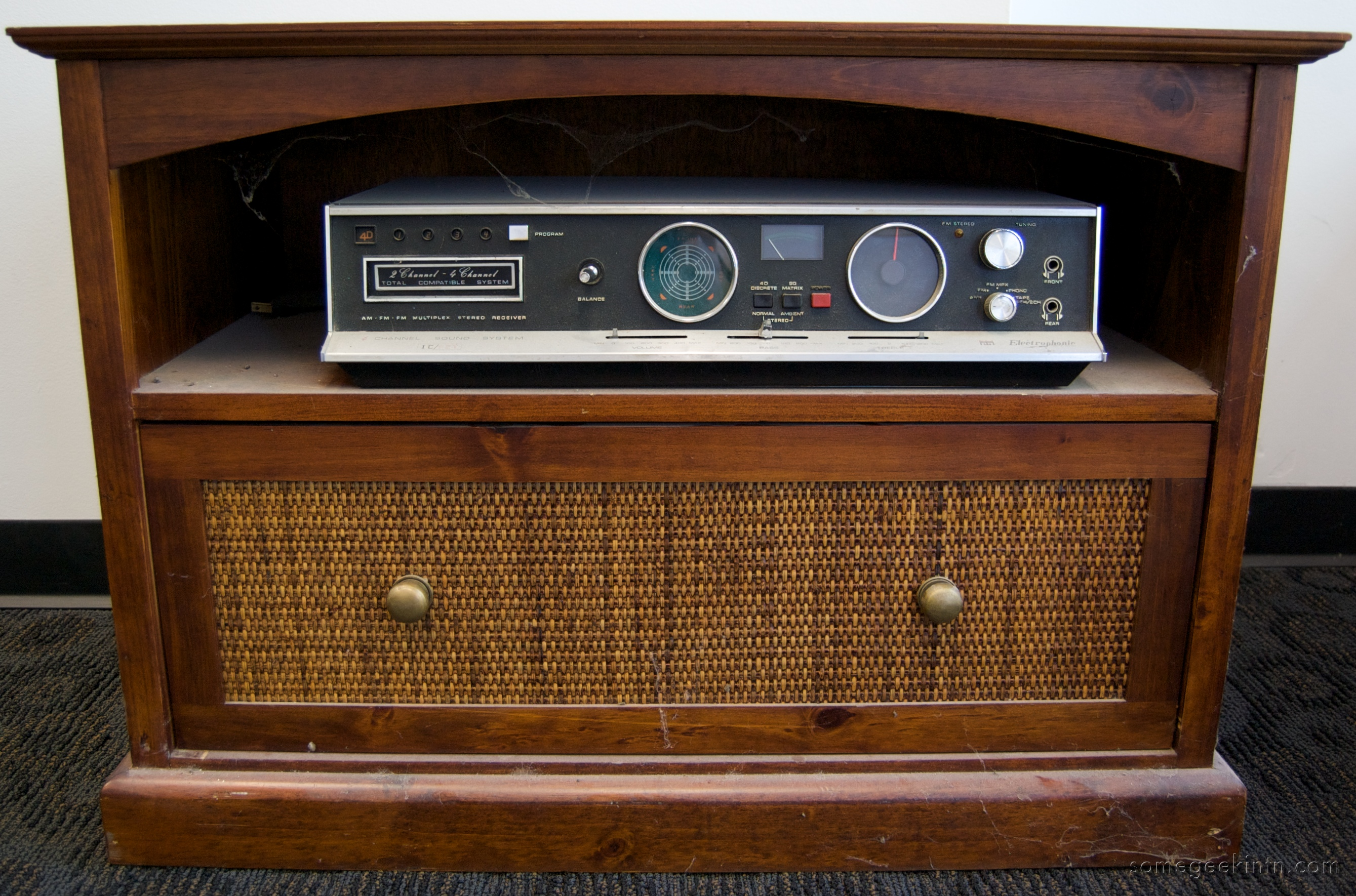 This is at work right now. Not sure why. The drawers are filled with old 8 track tapes... Maybe that's why.